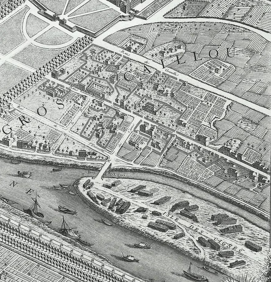 Plan de Turgot (died 1751) from 1739